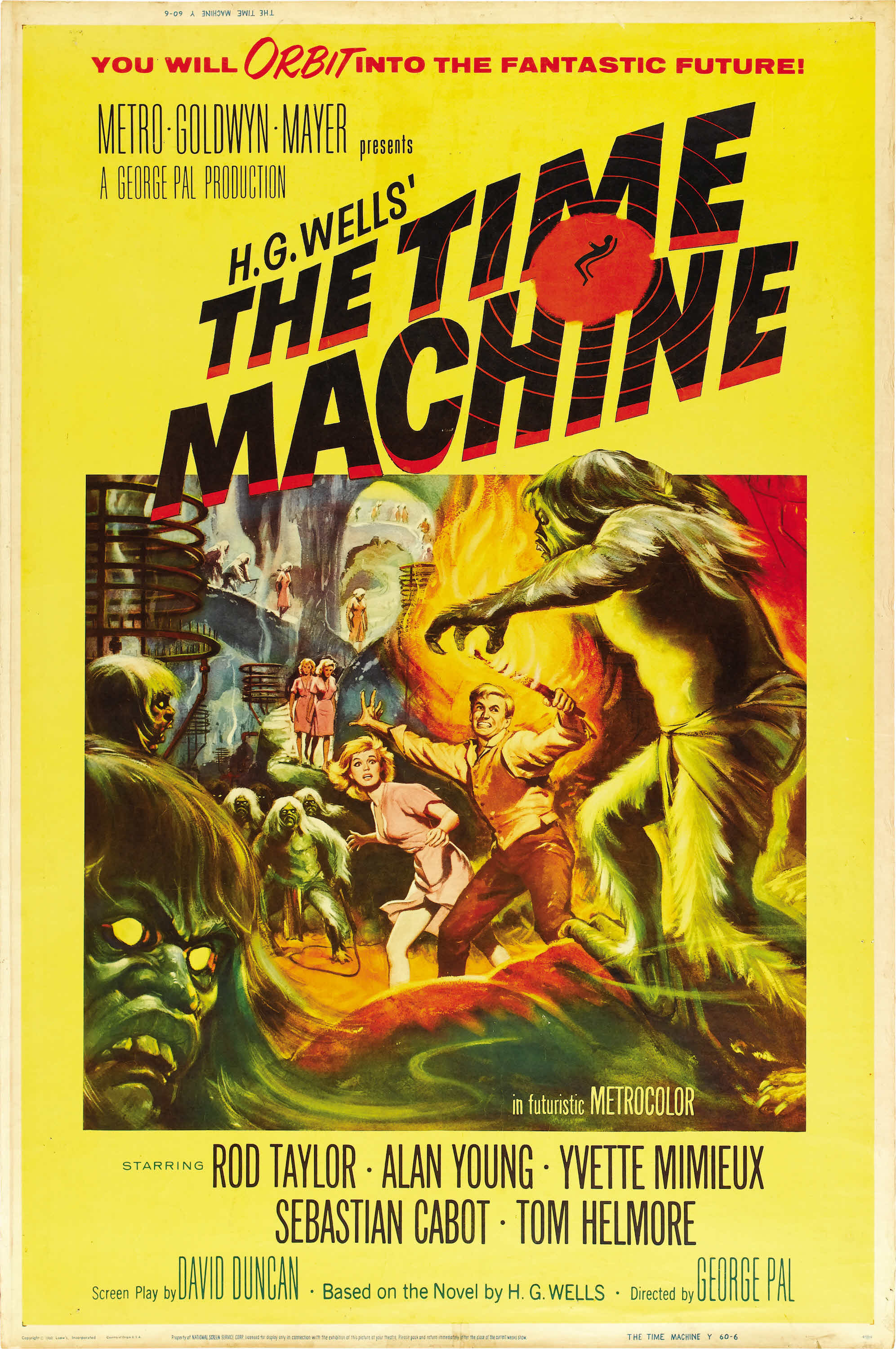 Poster for the film The Time Machine (1960 film)